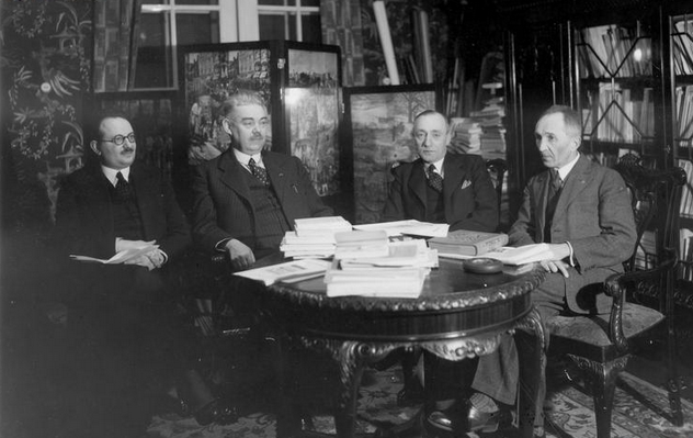 Károly Huszár, former Prime Minister of Hungary (second from left) among Polish journalists Jan Grzywiński and Ludwik Rubel and Hungarian consul Miklós Schabl in Kraków, Poland in 1935